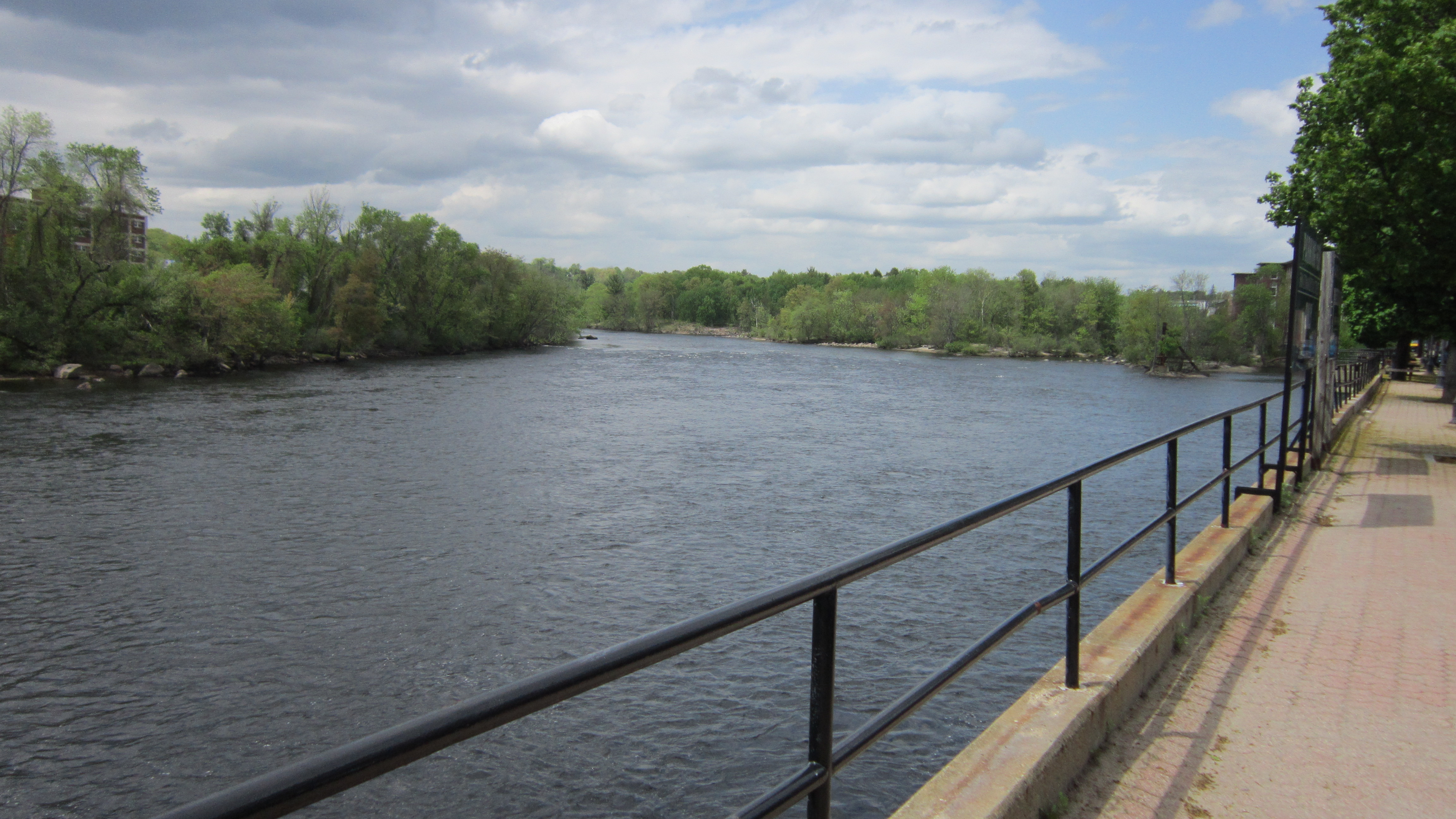 View of Merrimack River in Manchester, New Hampshire, looking north from Amoskeag Riverwalk, near Arms Park.